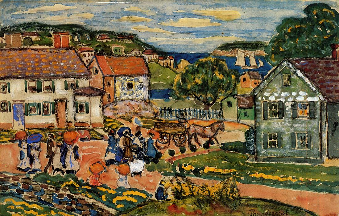 "Marblehead," watercolor, by the American artist Maurice Prendergast. Courtesy of the Williams College Museum of Art.